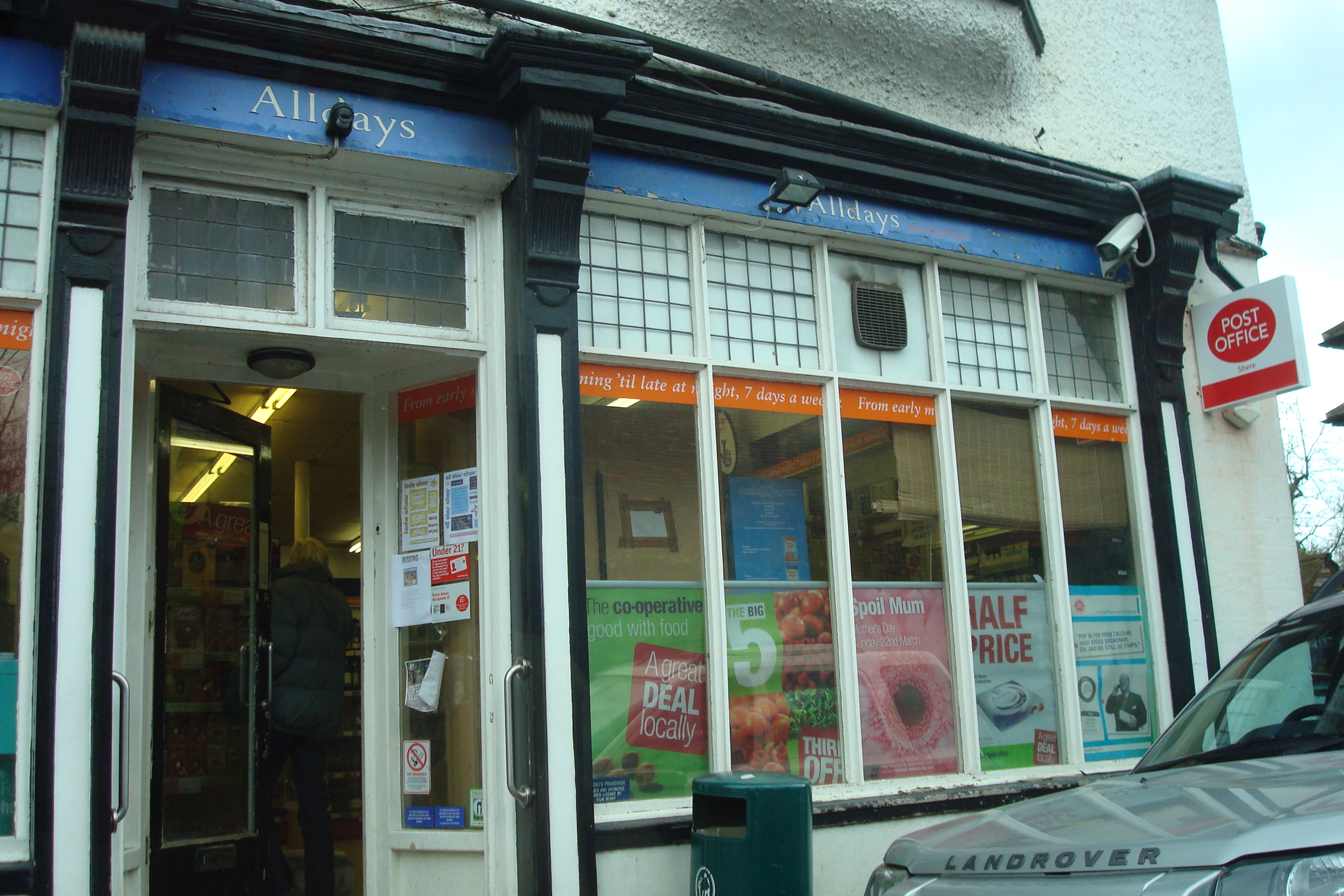 An Alldays store in Shere, Surrey. my photo, March 2009